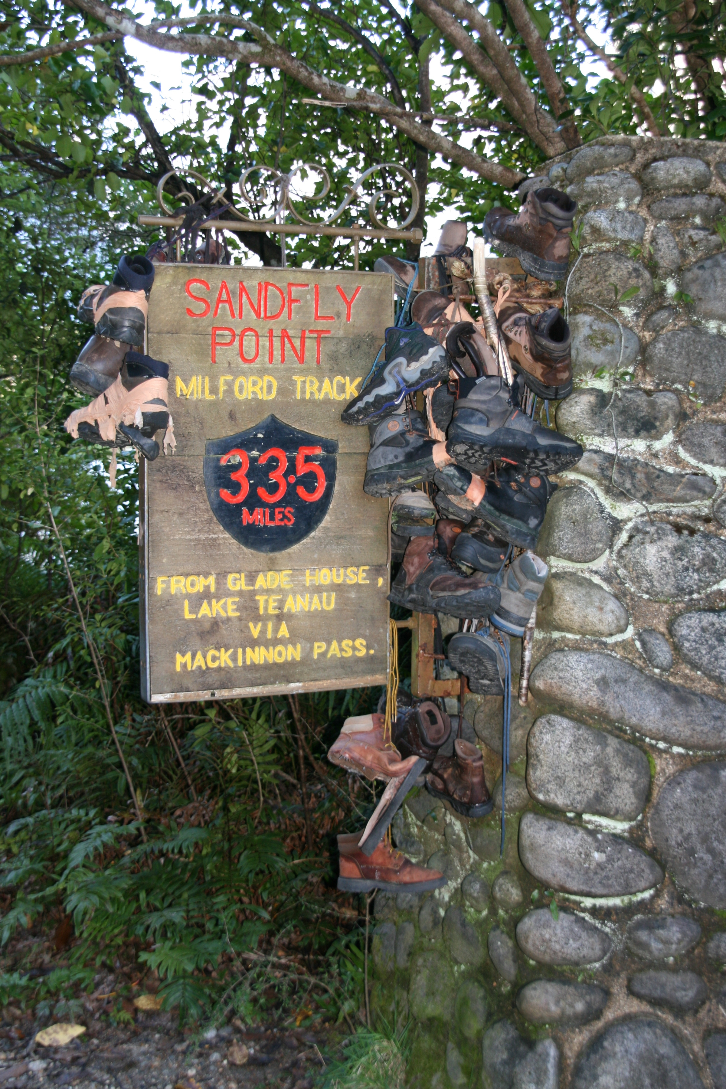 Abandoned (and often damaged) hiking boots at the end of the Milford Track, New Zealand. The track is not really THAT strenous, but a tradition of casting away your shoewear afterwards seems to have established itself nonetheless!